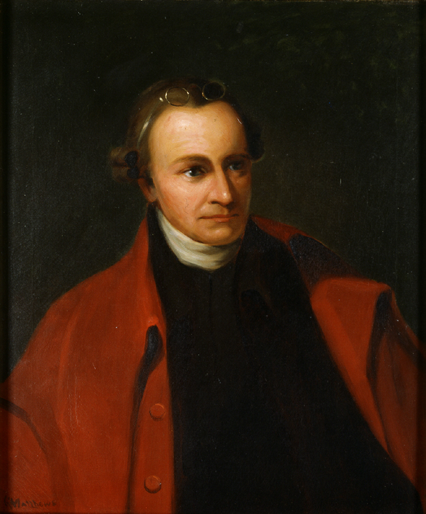 Patrick Henry. Oil on canvas, 29.5 inches (74.93 cm) x 24.625 inches (62.5475 cm). Cat. no. 31.00011.000